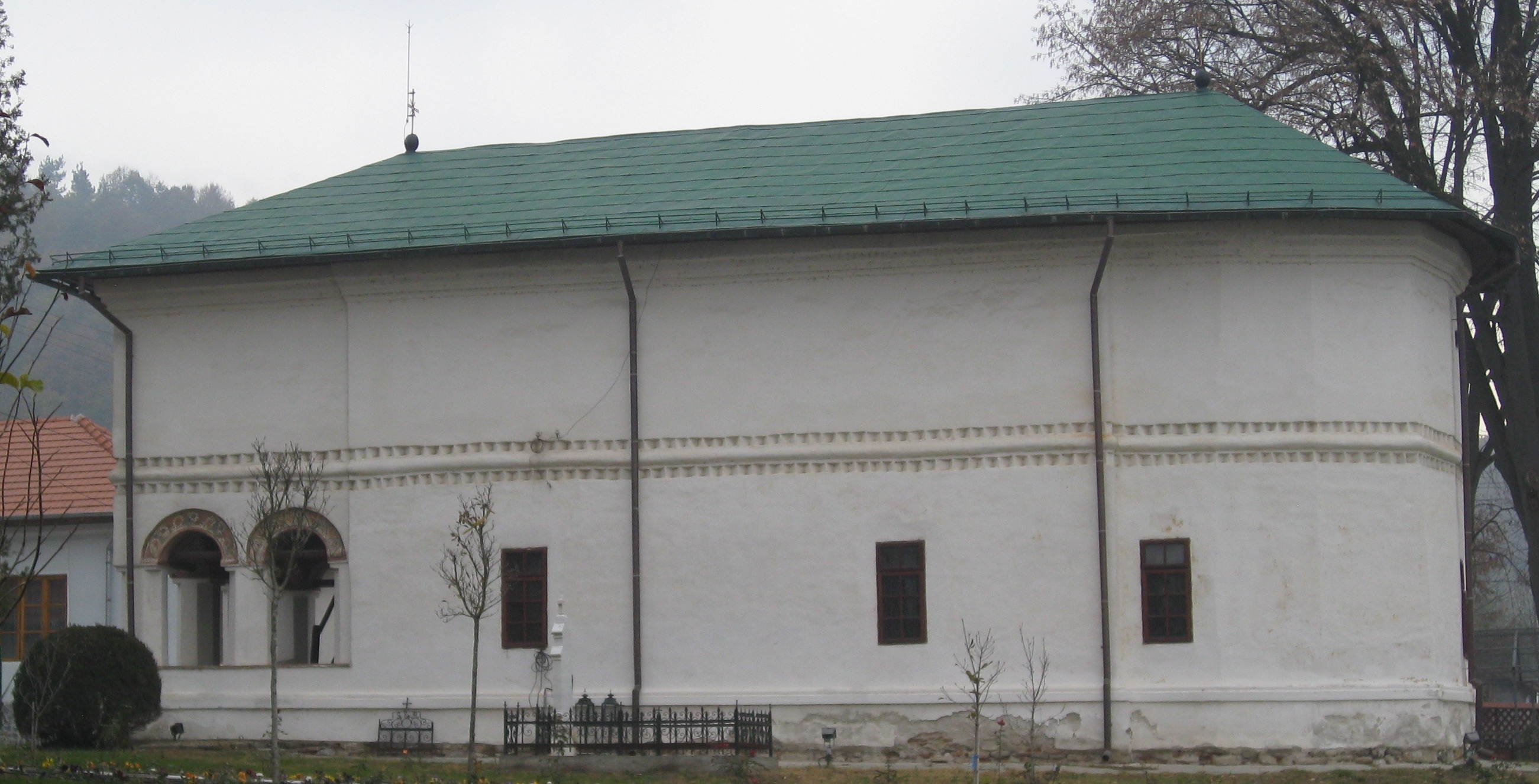 "Bolnita", Râmnicu Vâlcea, Romania 04 Aceasta este o imagine cu un sit arheologic din România, clasificat cu numărul 167482.15.02.